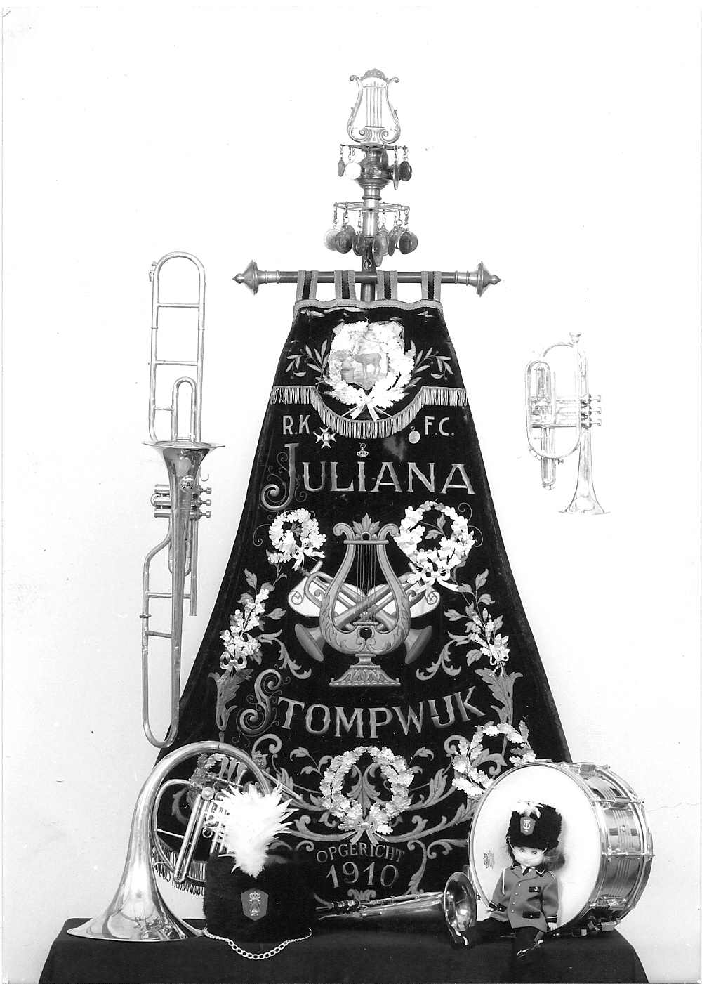 Banner Fanfare Juliana Stompwijk